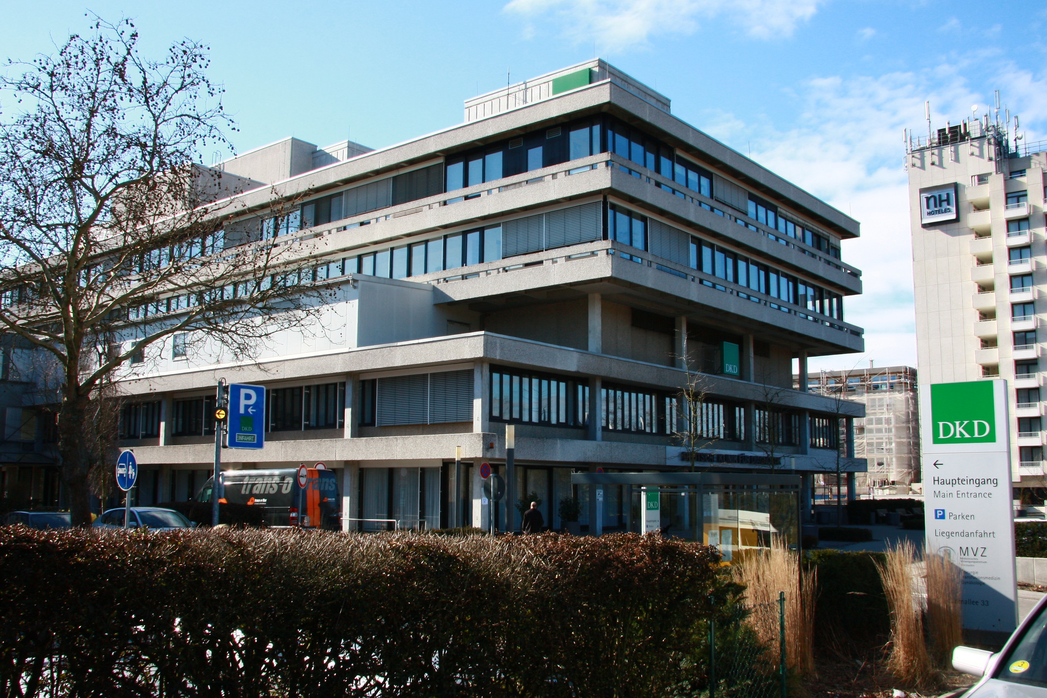 Deutsche Klinik für Diagnostik in Wiesbaden